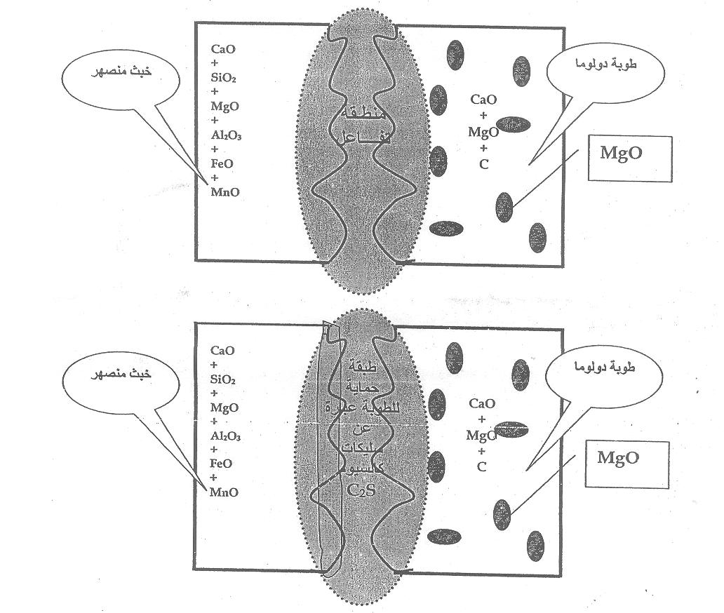 التفاعل الحادث بين طوب الدولوما وطبقة الخبث (المعالج بالسيليكا) الملامسة لسطح الطوبة الخارجي